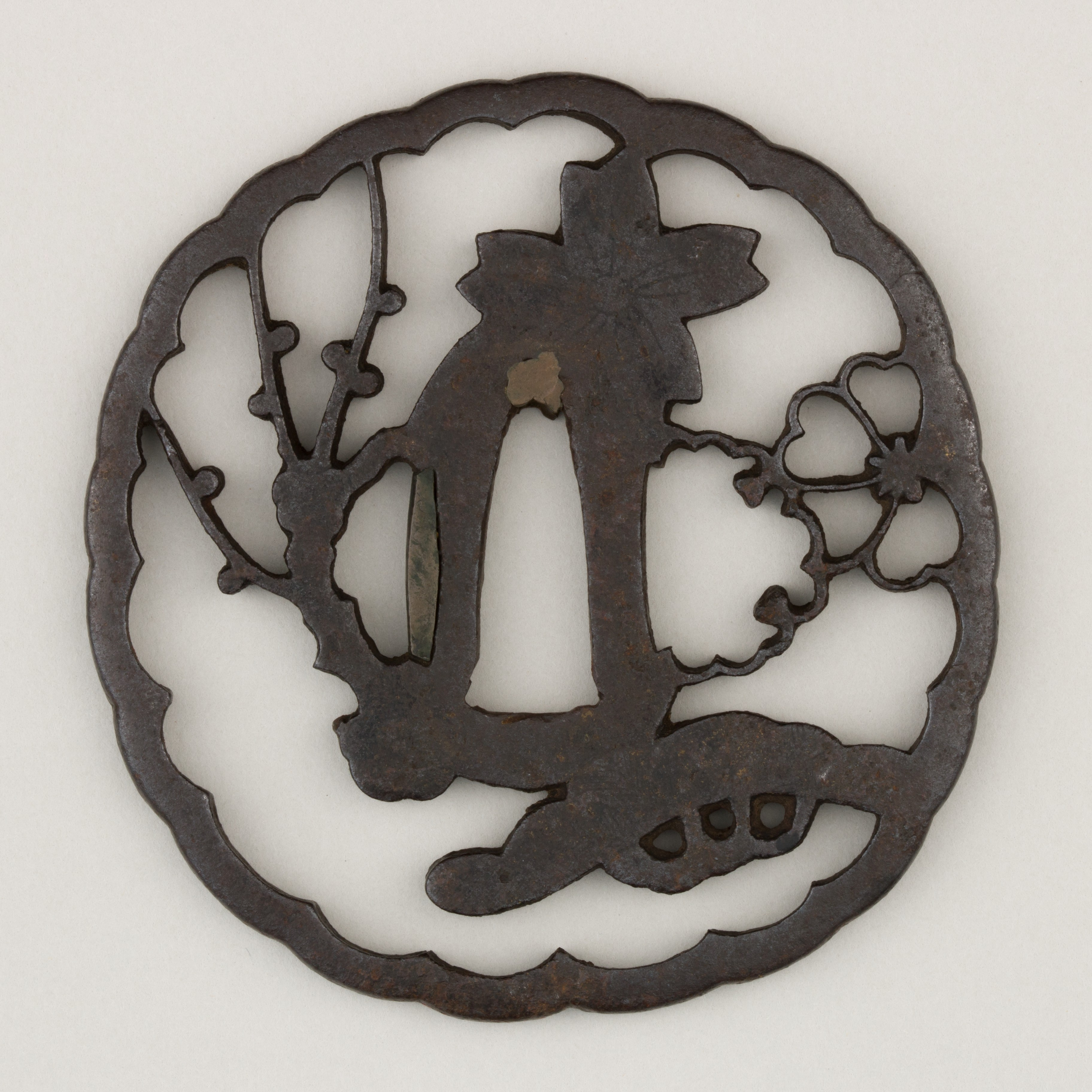 Japanese; Sword guard (Tsuba); Sword Furniture-Tsuba